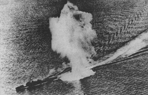 HIJMS Patrol Boat No.31